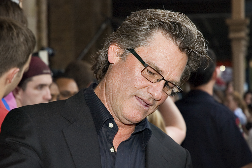 Actor Kurt Russell at the premiere of Grindhouse, Austin, Texas.